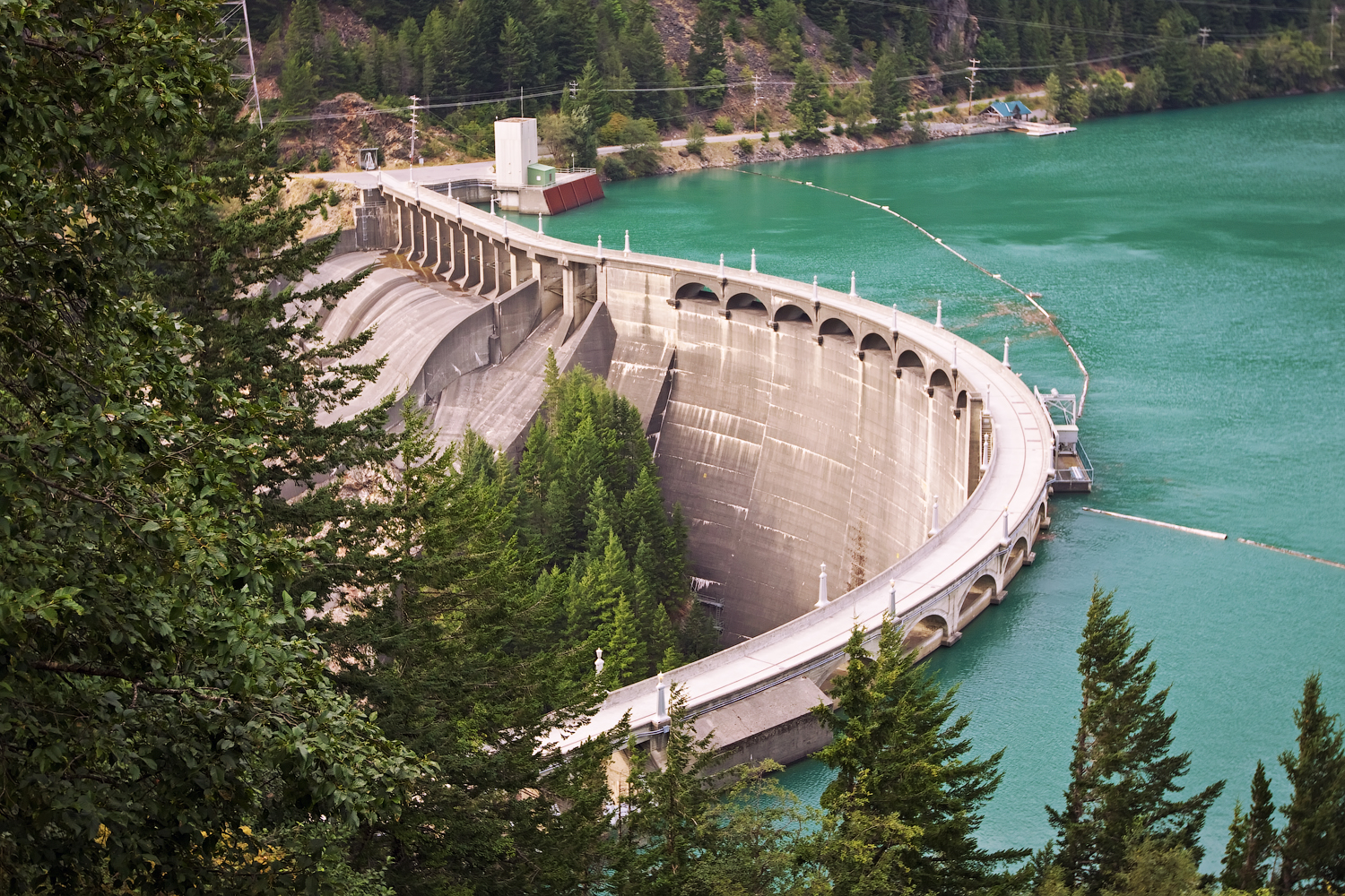 Diablo Dam as seen from WA SR 20